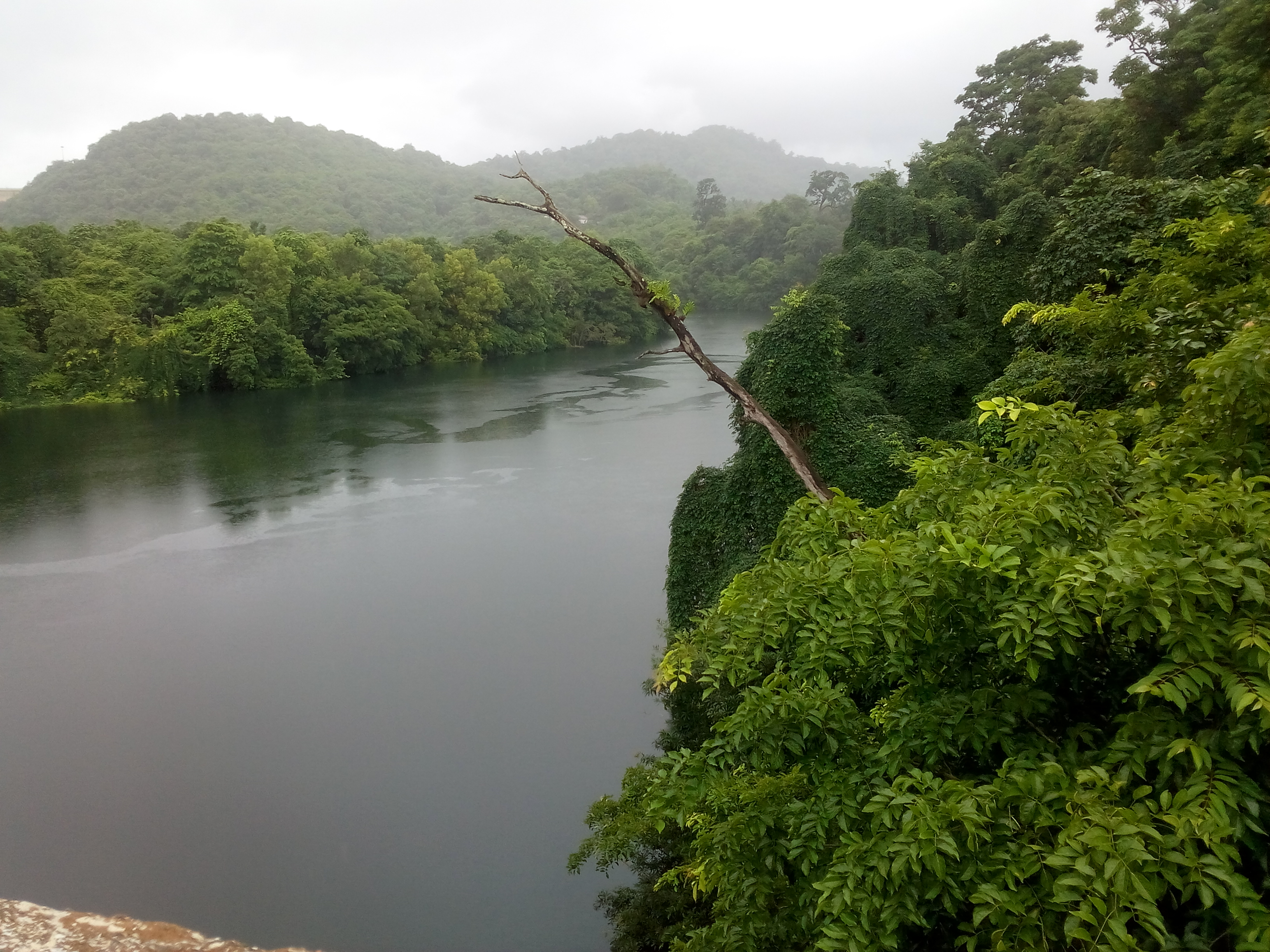 Kali River 2 Dandeli